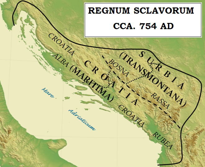 Map of fictituous Slavic kingdom of king Svetopelek in the Western Balkan as it has been described in Chronicle of Priest of Dioclea (Artificial personality of Svetopelek should probably be seen as a king in the 8th century AD).